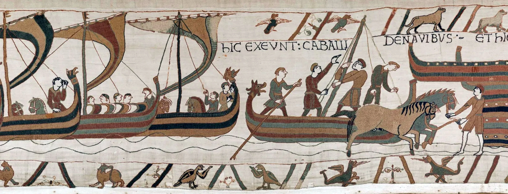 Bayeux Tapestry. Scene 39